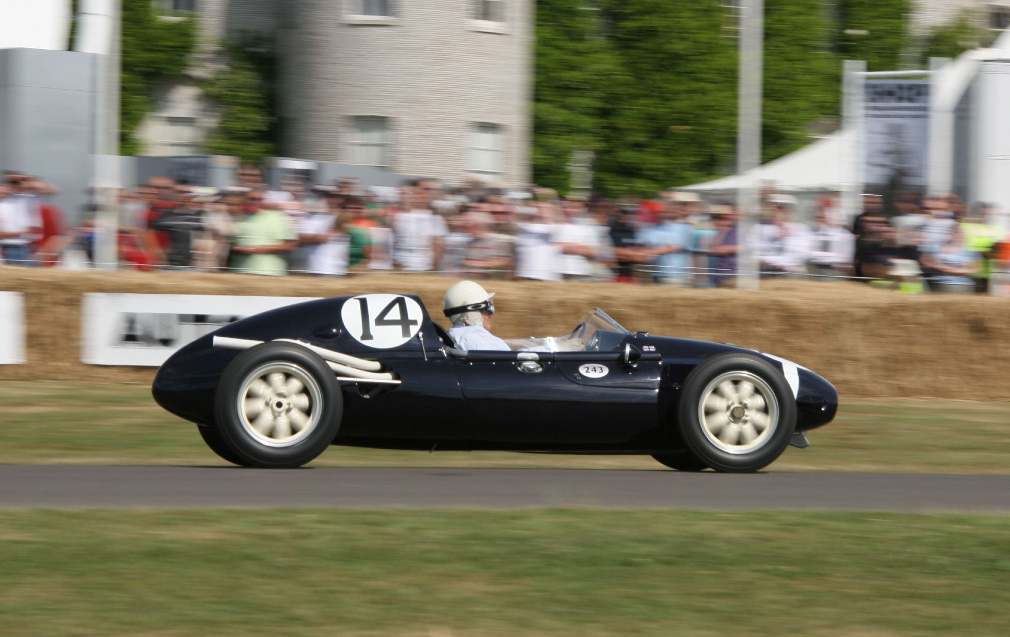 1957 Cooper Climax T43 at the 2006 Festival of Speed. Sir Stirling Moss is driving it.